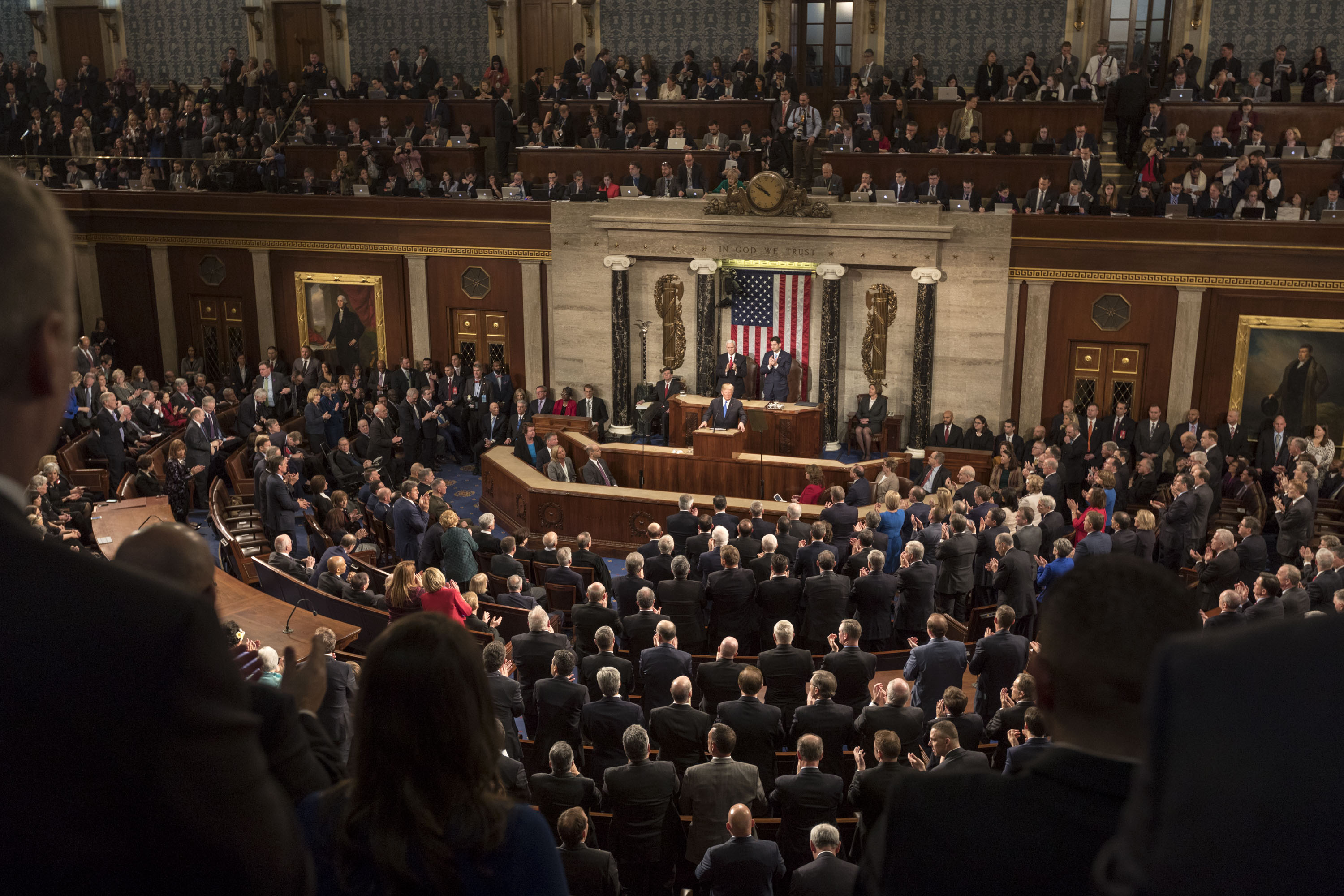 State of the Union 2018 (Official White House Photo by D. Myles Cullen)